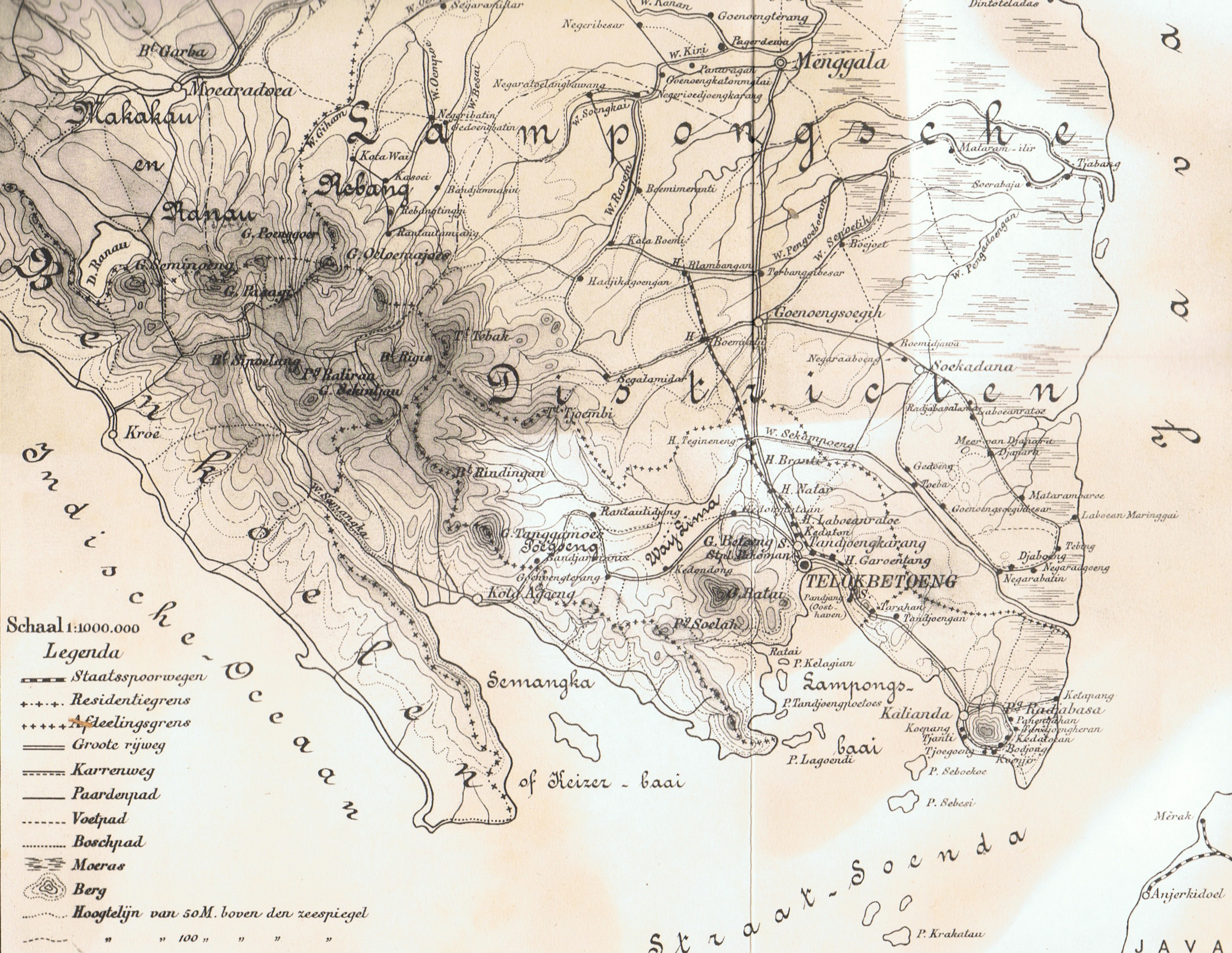 Map of Lampung Residency, 1916